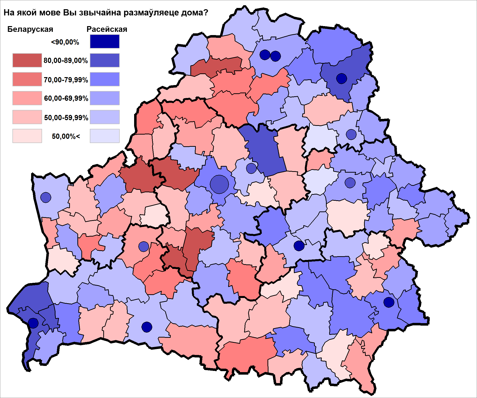 Belarusian as a "language spoken at home" according to the 2009 Belarus Census